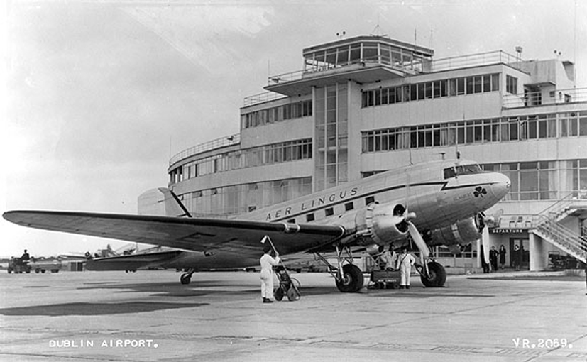 An Aer Lingus DC-3 plane at Dublin Airport's original terminal building. This curved building won design awards for its architect, Desmond Fitzgerald, brother of former Taoiseach (Prime Minister) Garret Fitzgerald, who worked in Aer Lingus for a number of years. Date: Circa 1950 NLI Ref.: VAL 2069